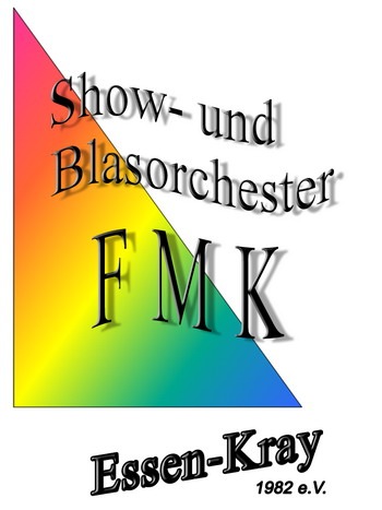 Sign from FMK Essen Kray, a brass band from Germany